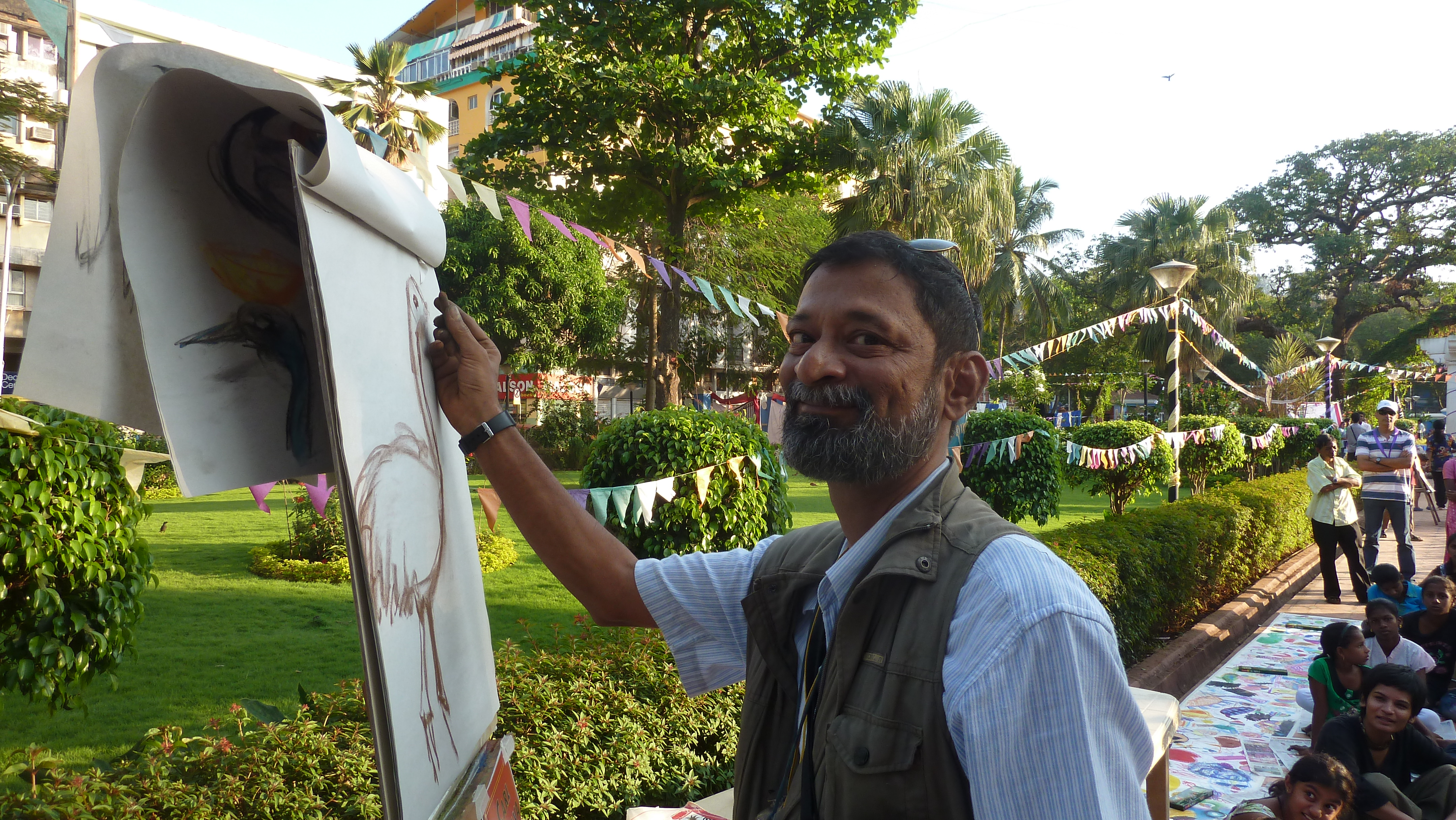 Carl D'Silva, from Goa, artist and naturalist well known for his paintings of birds in many ornithological handbooks and field guides.